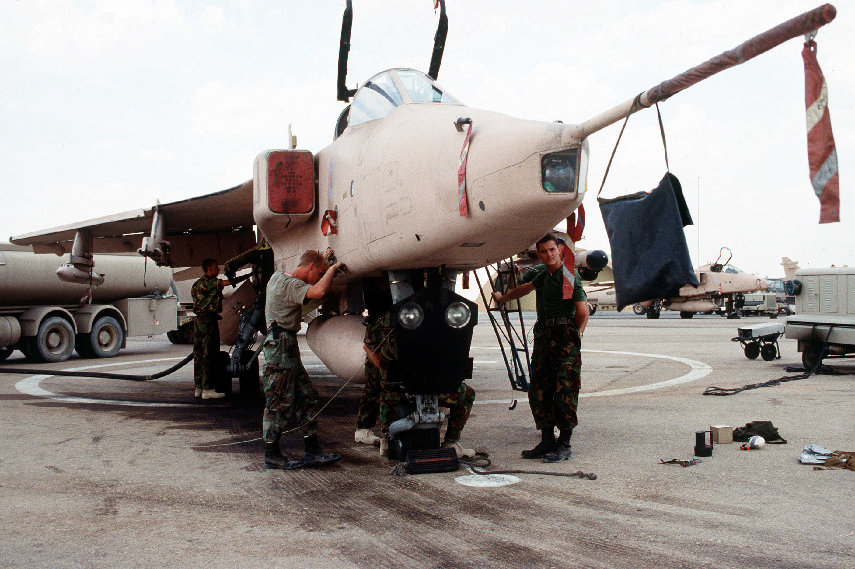 British and U.S. Air Force ground crew members refuel a Royal Air Force SEPECAT Jaguar GR1 aircraft from No. 41 Squadron, RAF, (probably at Bahrain) during Operation "Desert Shield" on 23 January 1991.